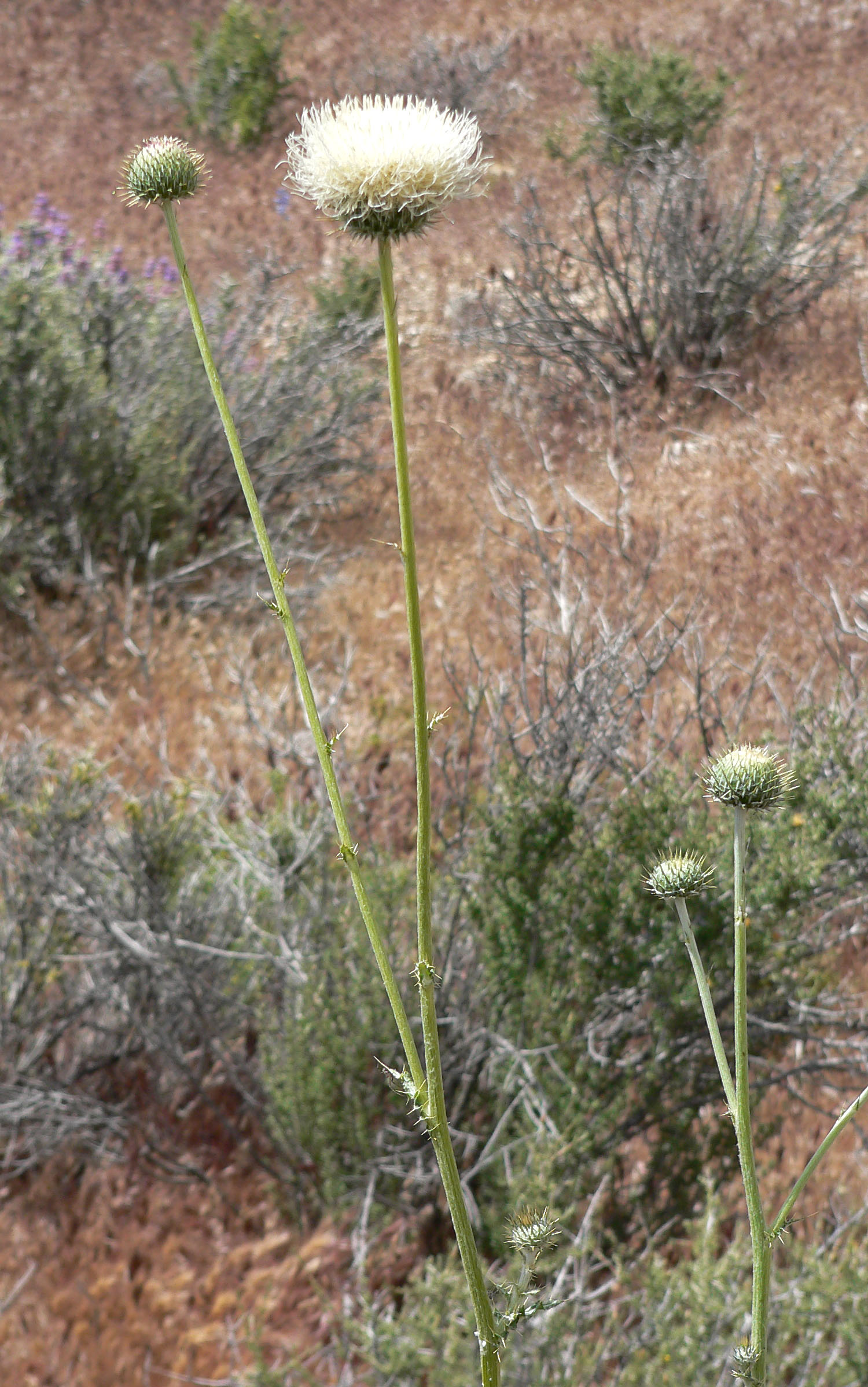 Photo of Cirsium neomexicanum in Red Rock Canyon, Nevada